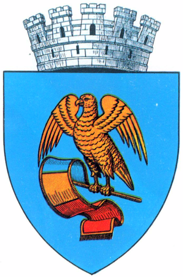 Interwar coat of arms of Pitești, Argeș County, Kingdom of Romania.